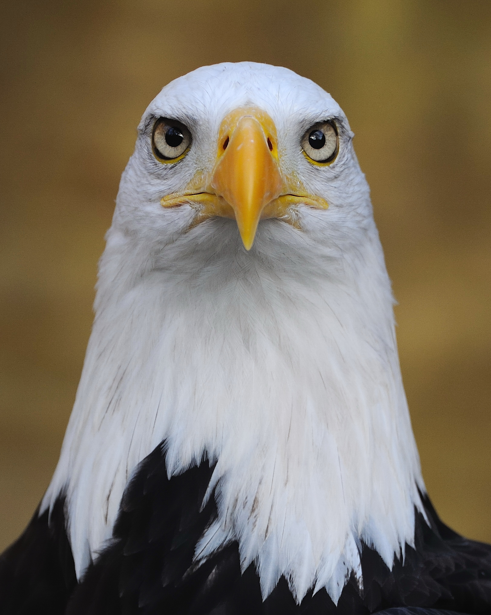 Haliaeetus leucocephalus or as more commonly called... Bald Eagle. Taqbaylit: Haliaeetus leucocephalus naɣ s isem is amsun... Igider Agellad.